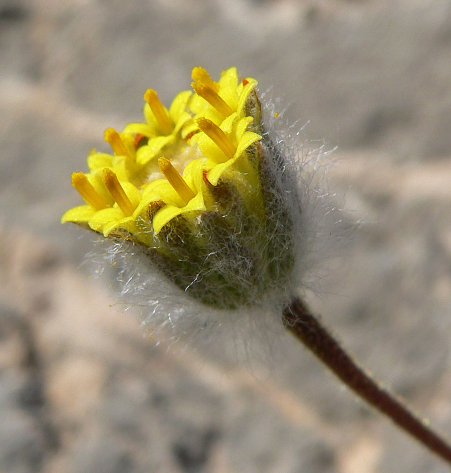 Trichoptilium incisum in Bitter Spring Valley near Northshore Drive, Lake Mead, southern Nevada